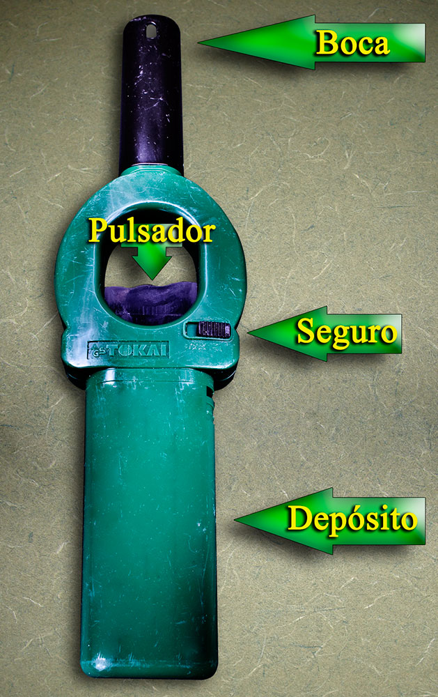 Magiclick